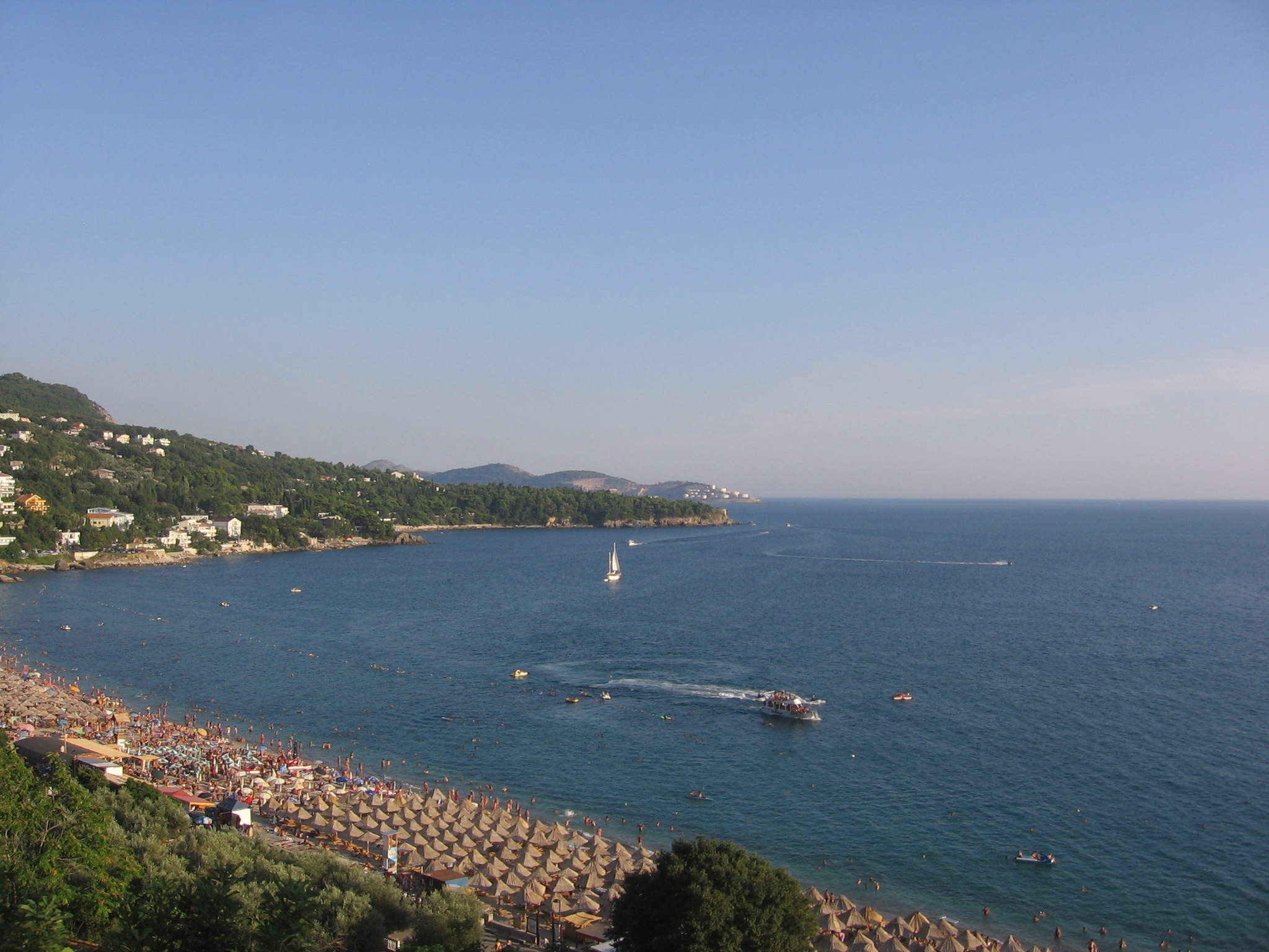 Sutomore, Montenegro